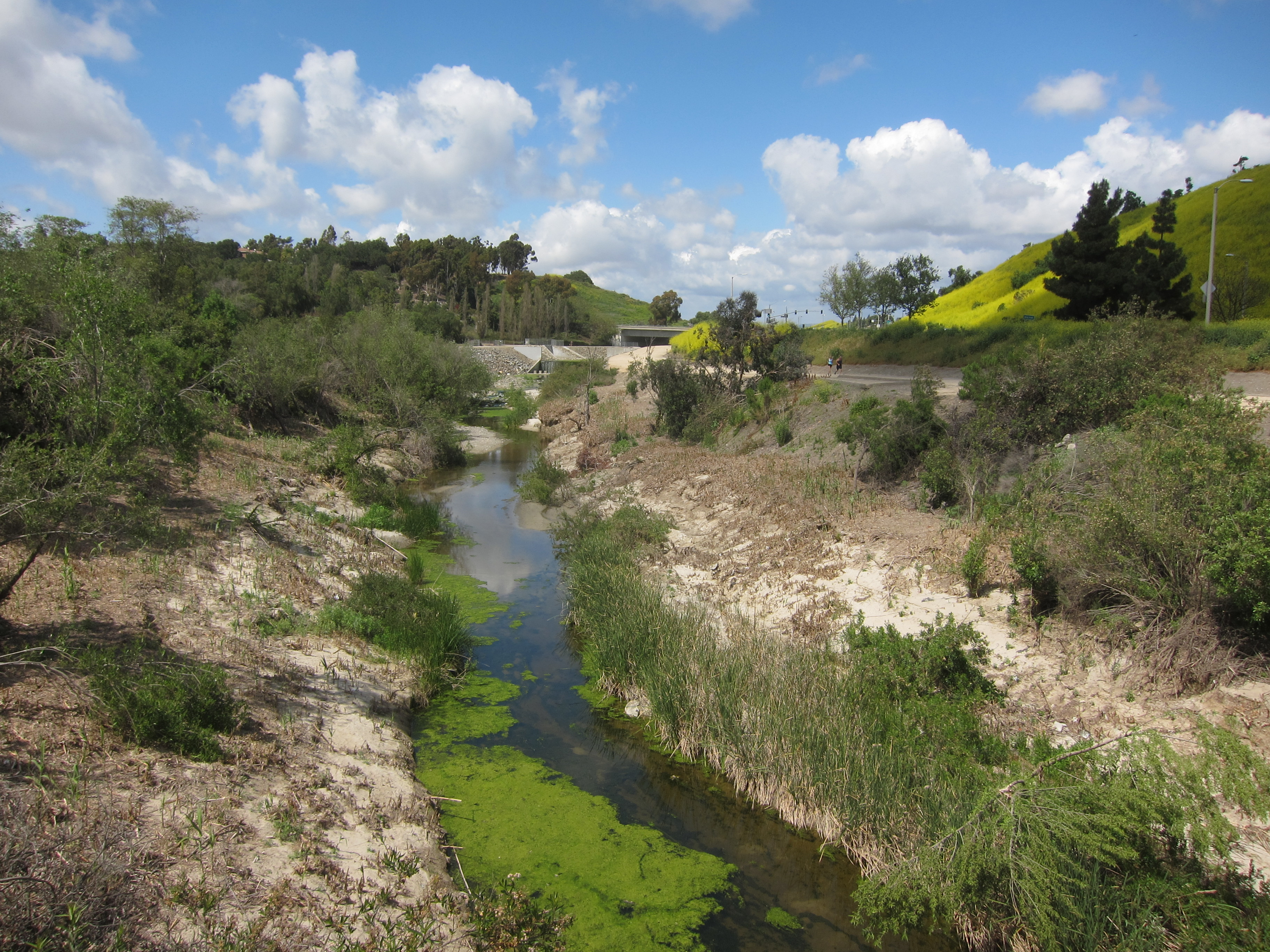 Aliso Creek view at the AWMA Road bridge, looking upstream